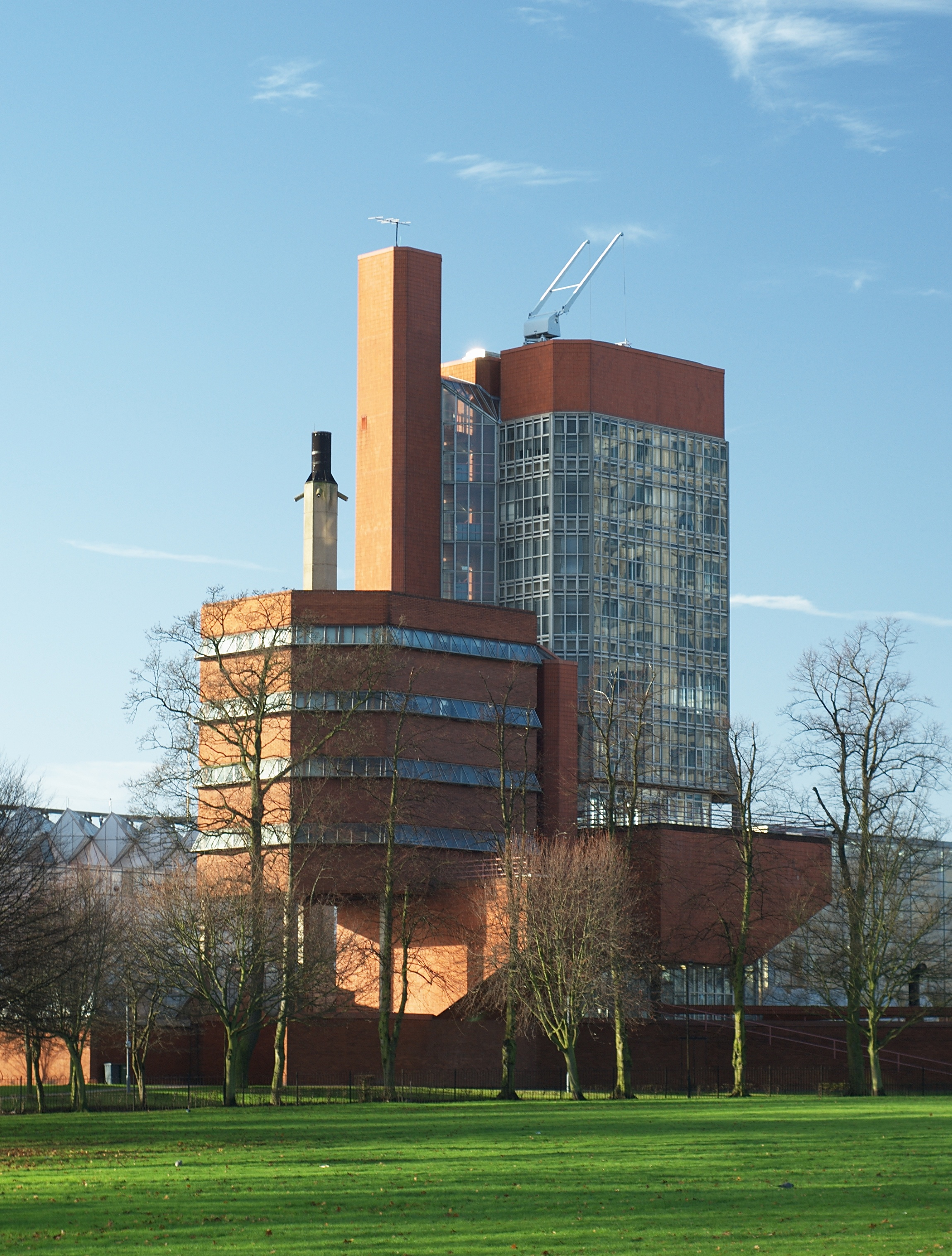 The Engineering Building at the University of Leicester seen from Victoria Park. The building is Grade II* listed and was designed by James Stirling.